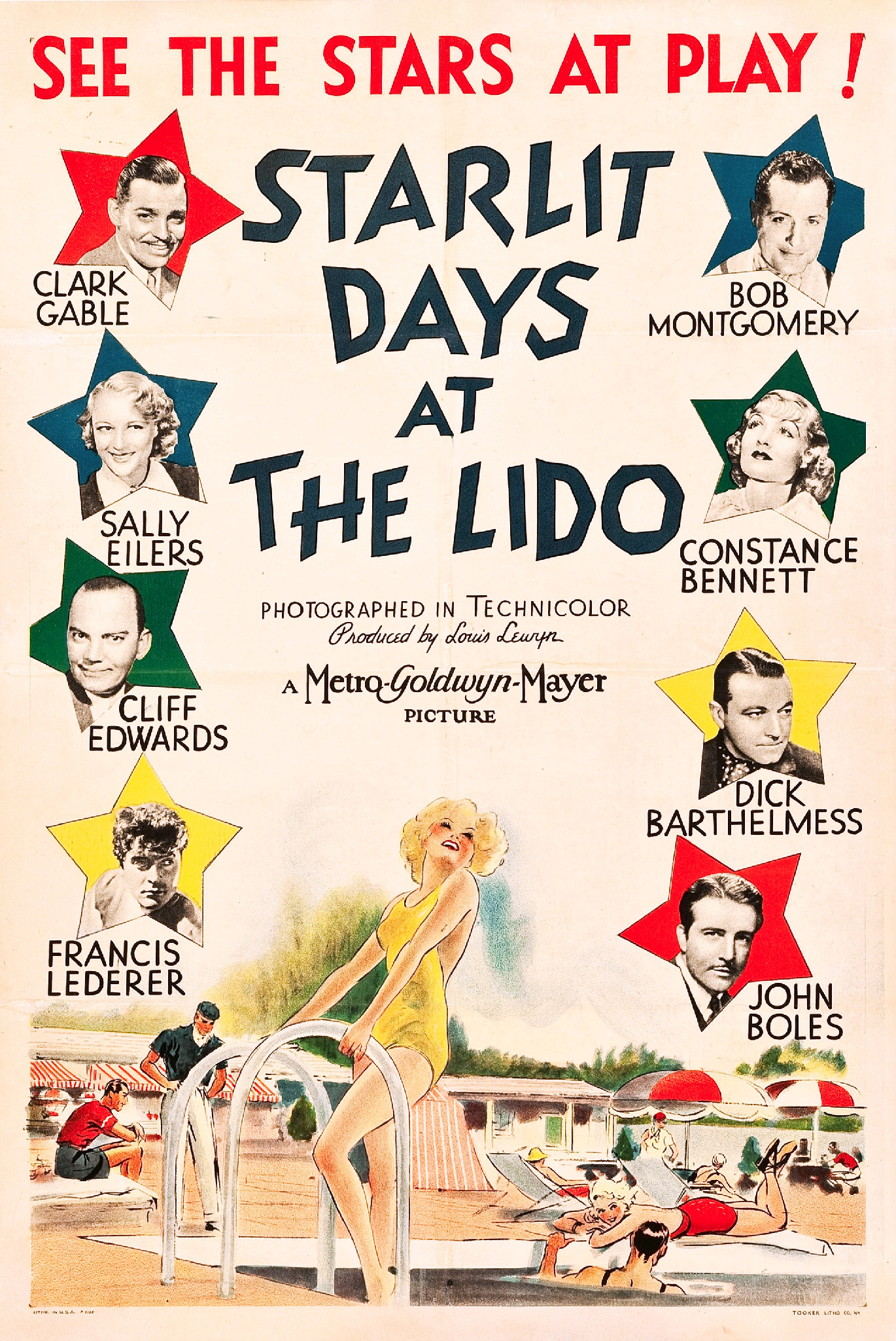 Poster for the 1935 short film Starlit Days at the Lido. The Lido Lounge was in the Ambassador Hotel, Los Angeles. The item has no copyright markings on it as can be seen in the links above. At bottom left is Litho in USA #7105. At bottom right is Tooker Litho Co., NY.